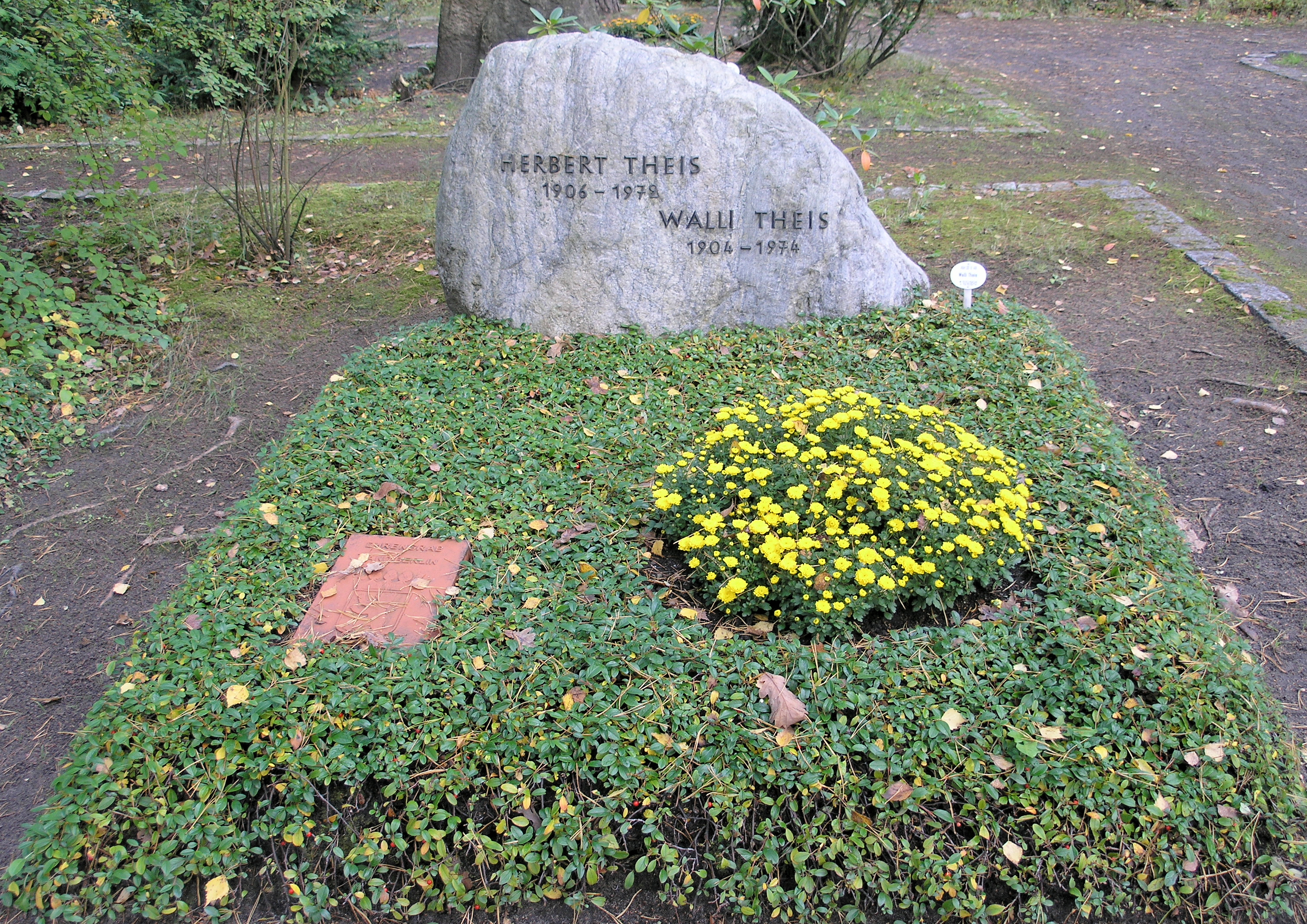 "Ehrengrab" (grave of honor), Herbert Theis, Potsdamer Chaussee 75, Berlin-Nikolassee, Germany Koordinate:52°25′23″N 13°12′38″E / 52.42306°N 13.21056°E